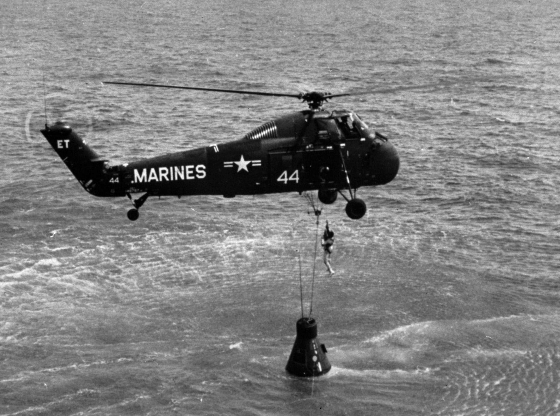 A Sikorsky HUS-1 Seahorse (after 1962 UH-34E) of Marine squadron HMM-262 from the U.S. aircraft carrier USS Lake Champlain (CVS-39) retrieving the Freedom 7 spacecraft (Mercury-Redstone 3), with which astronaut Alan Shepard made the first U.S. suborbital flight into space on 5 May 1961 (location: 27.23° N 75.88° W).